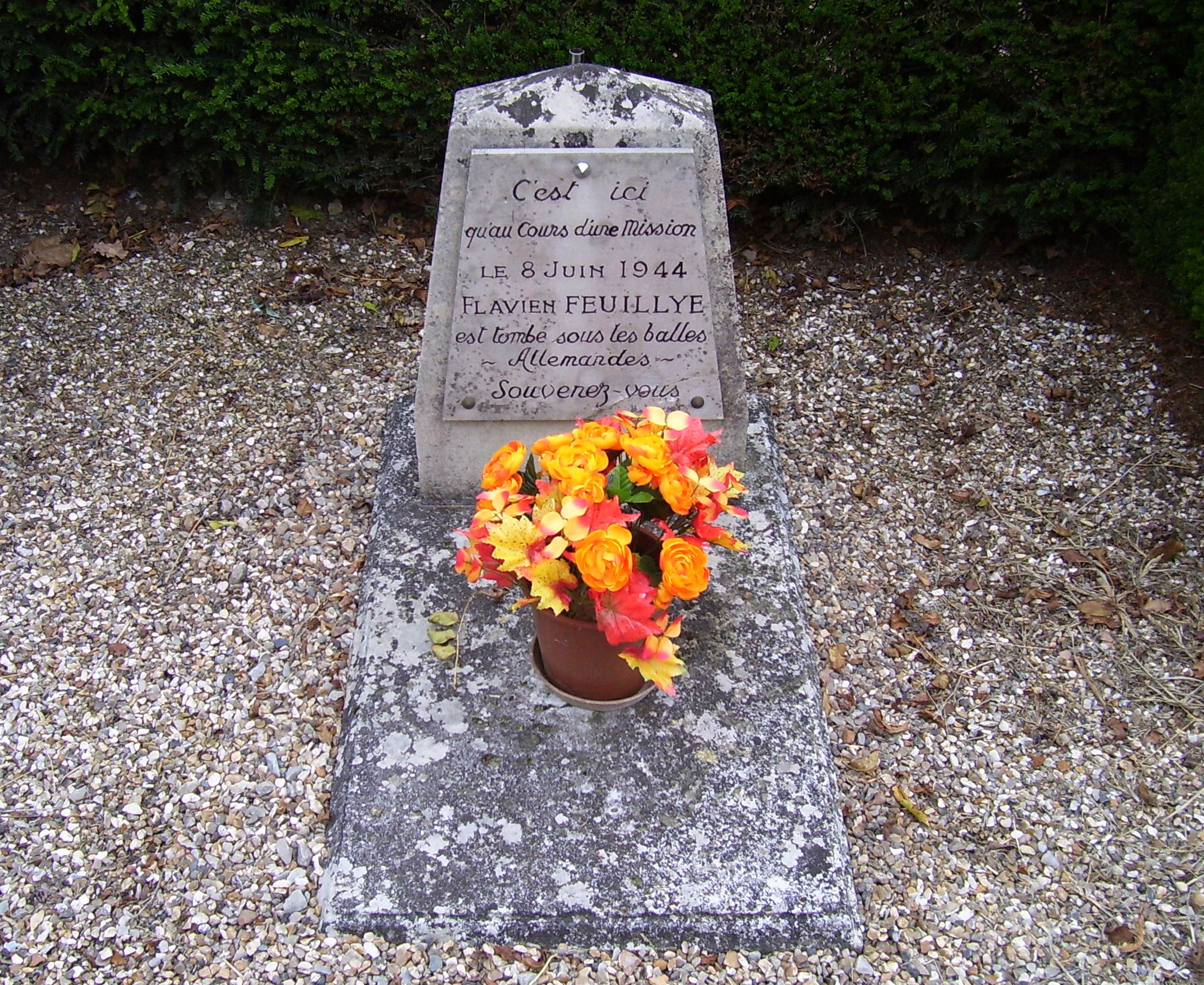 Memorial for a Maquisard of Saint-Georges-du-Vièvre in the département Eure in the Haute-Normandie in France.